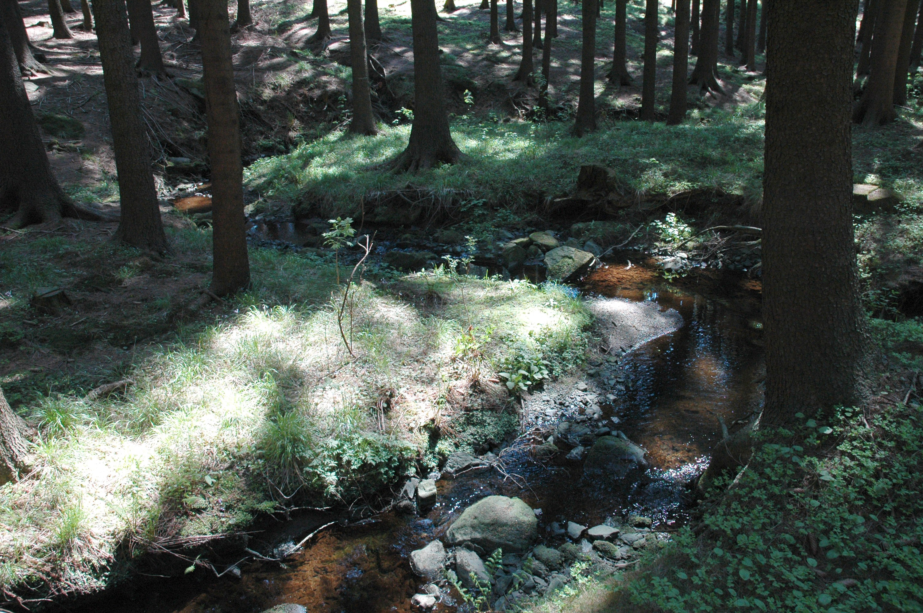 Natural monument Les na dolíku in Chrudim District, Czech Republic